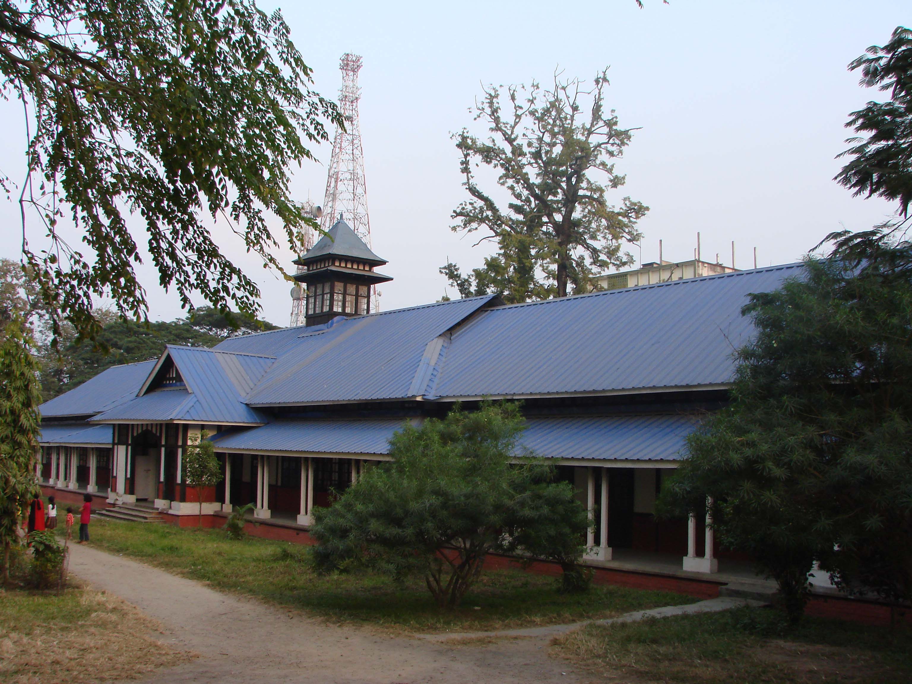 Cotton college in Guwahati has initiated modern tertiary education and research in Assam and has been continuing with its classical and traditional high-standards for more than hundred years. Many of its buildings are excellent examples of Assamese architecture with colonial flavours.